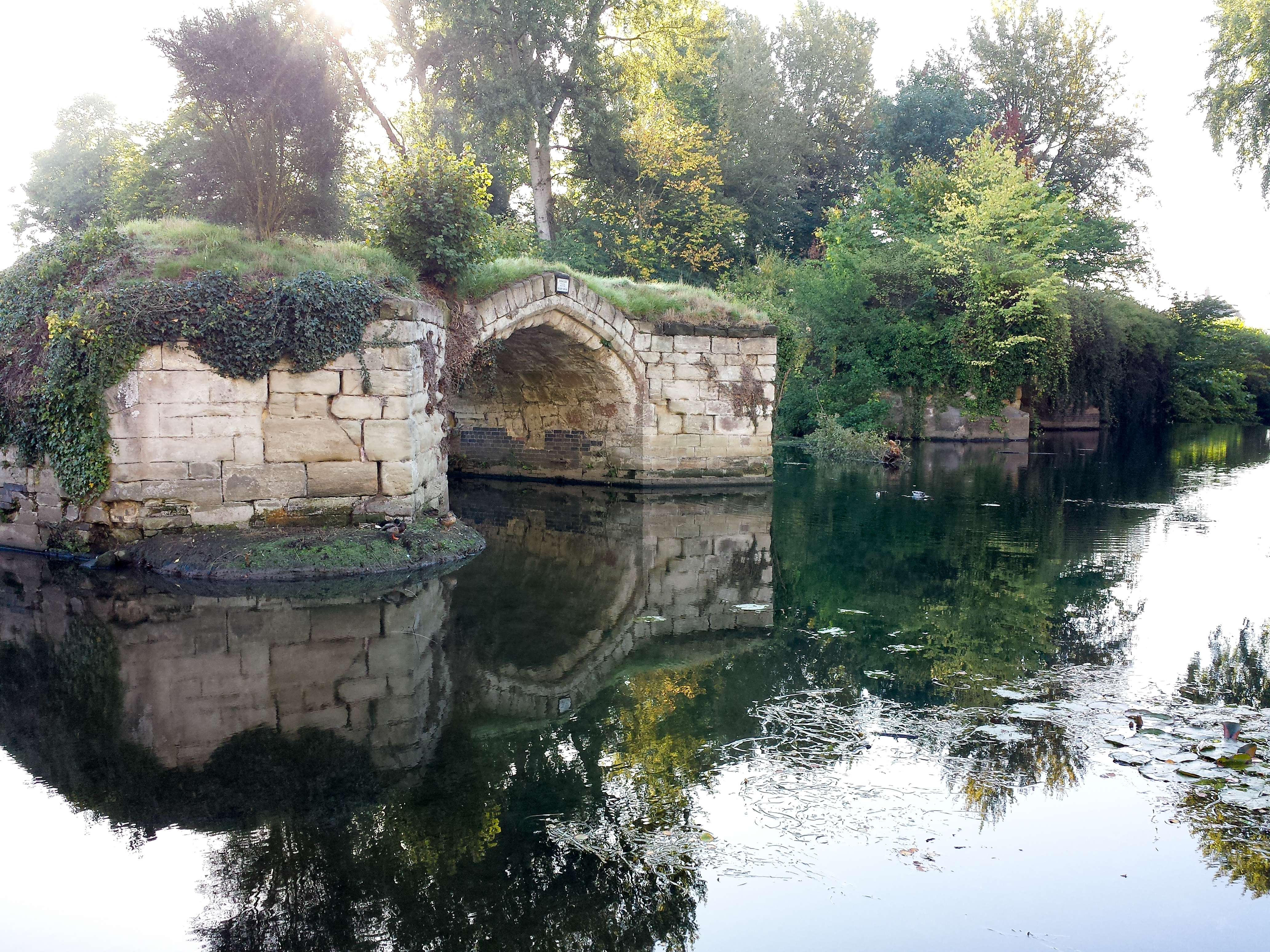 Remains of the Old Castle Bridge, Warwick. This medieval bridge, which used to carry the road from the south into Warwick, crosses the River Avon adjacent to Warwick Castle.